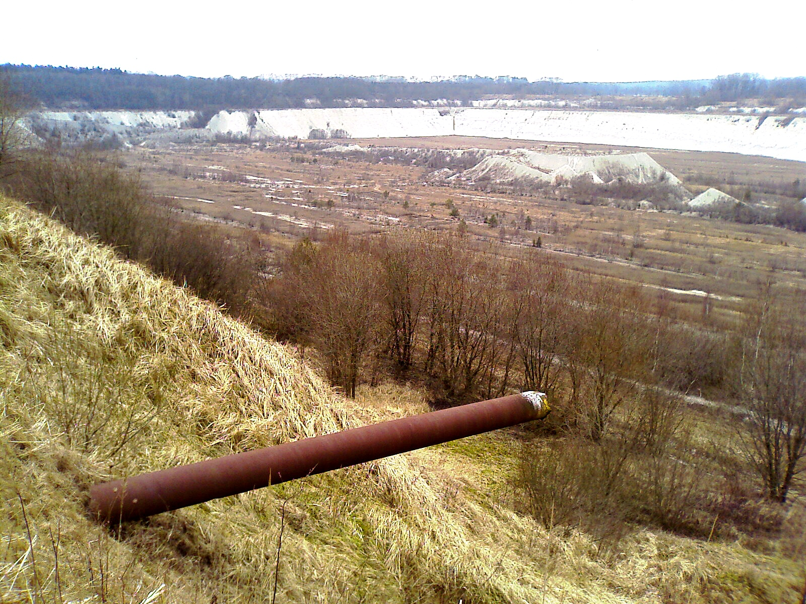 Chalkstone open pit mining close to Lägerdorf (Kreis Steinburg in Schleswig-Holstein)